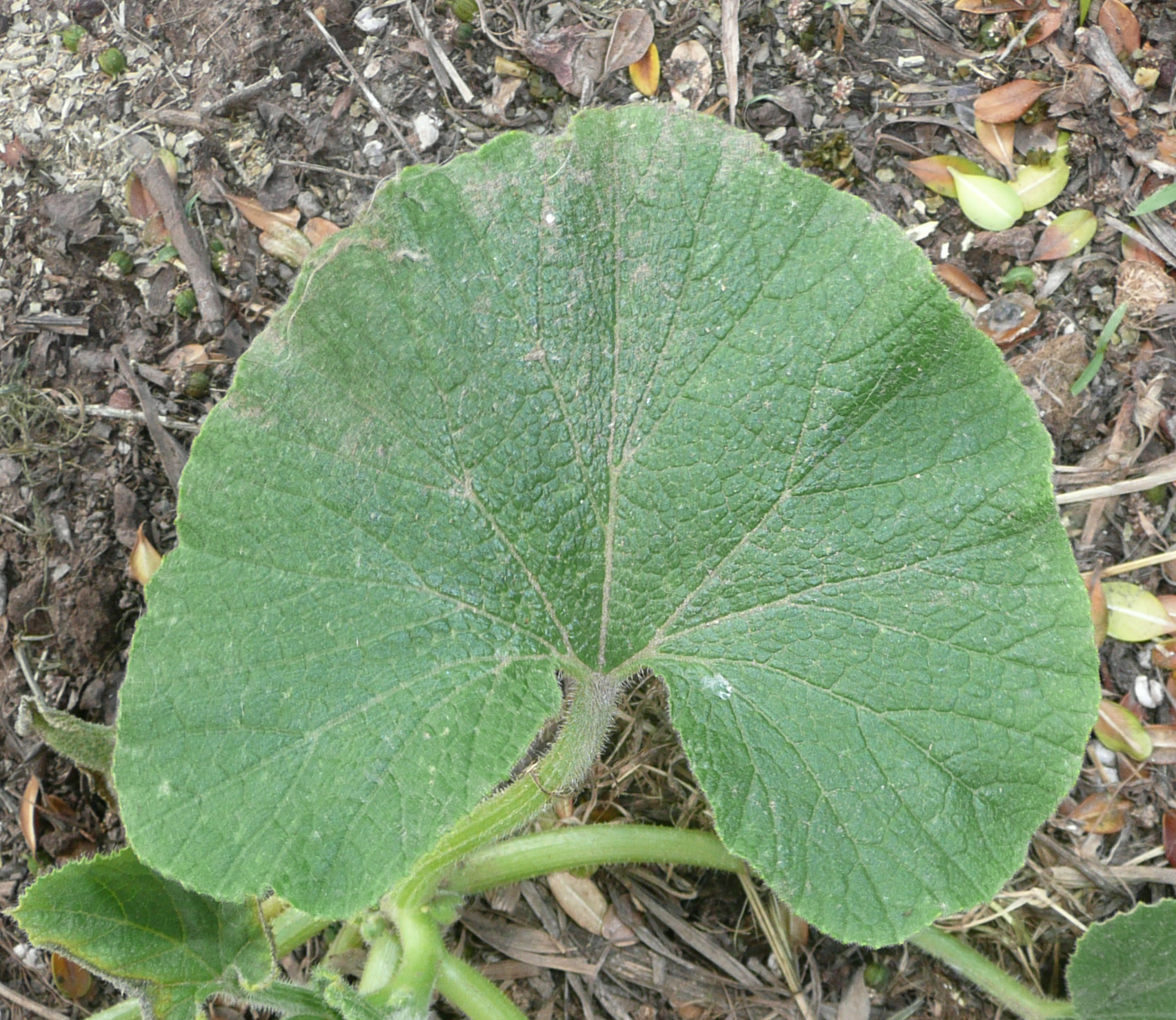 Cucurbita maxima var. zapallito example of a reniform leaf.